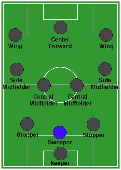 Position of Sweeper